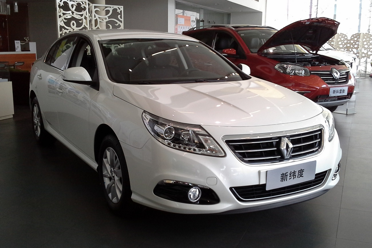 Renault Latitude facelift photographed in Chengdu, Sichuan province, China.